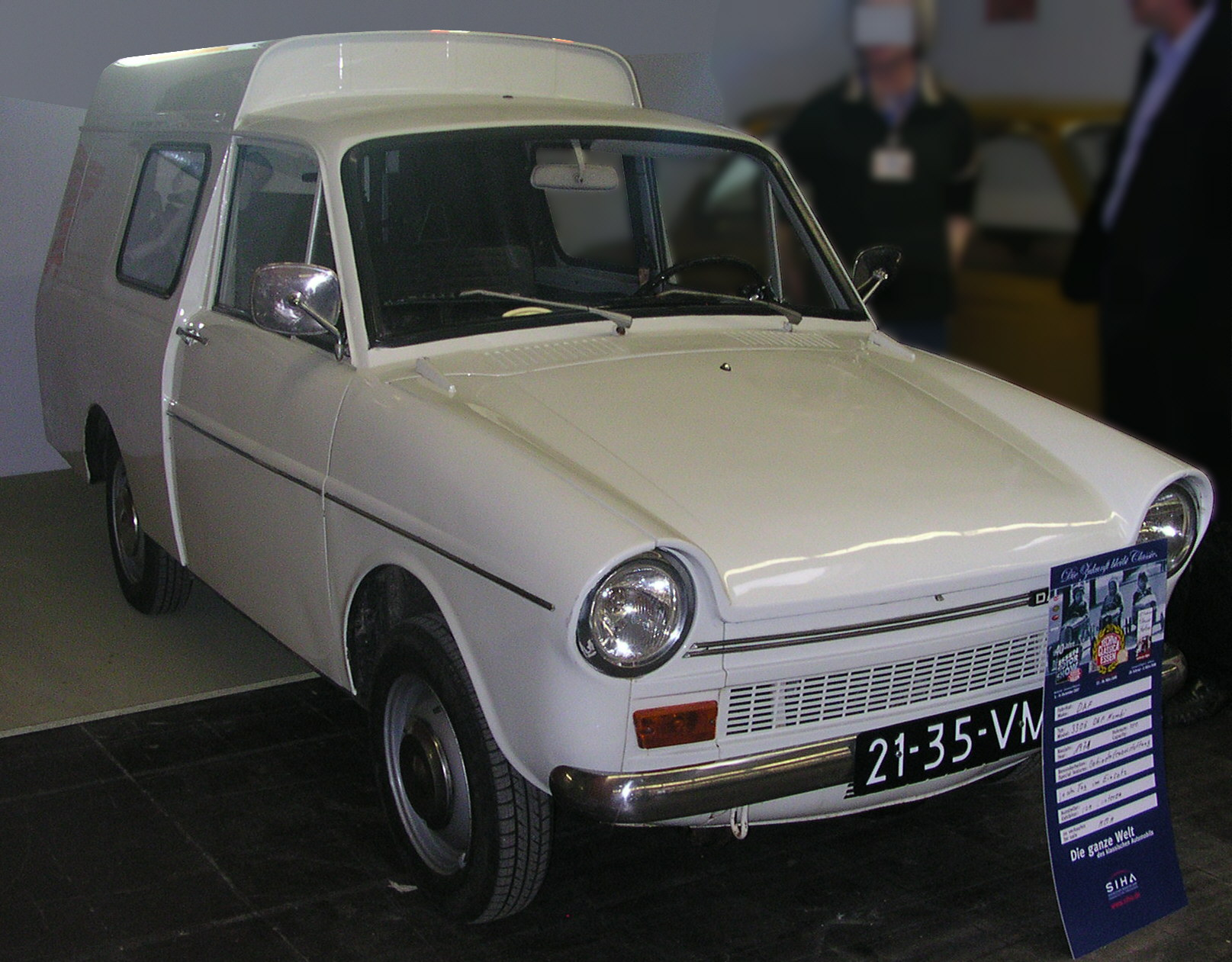 Techno-Classica Essen 2007, DAF 3306, equipped to transport the disabled, allegedly in daily use